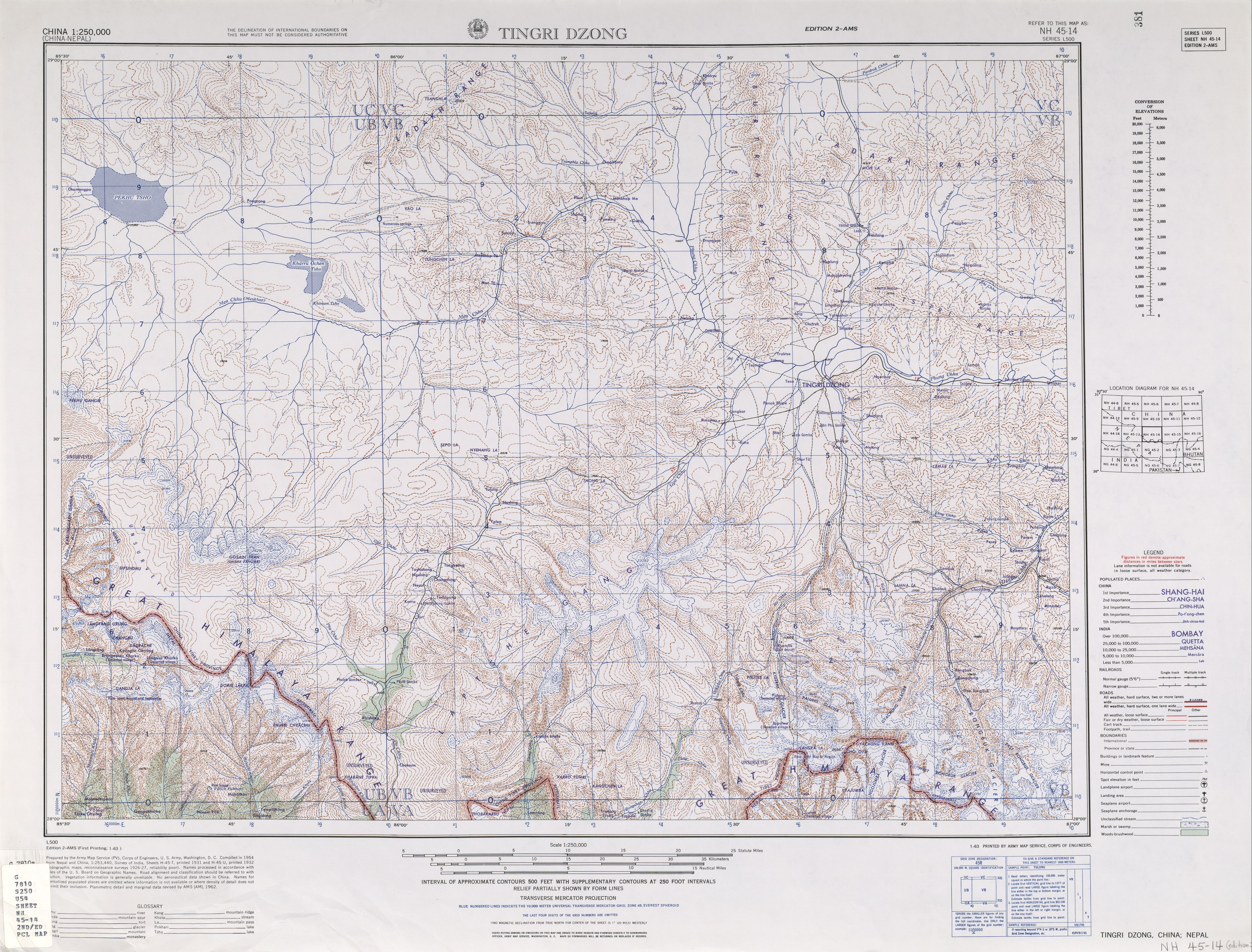 NH 45-14 Tingri Dzong. Tile of the Map India and Pakistan 1:250,000. Series L500, U.S. Army Map Service, 1955